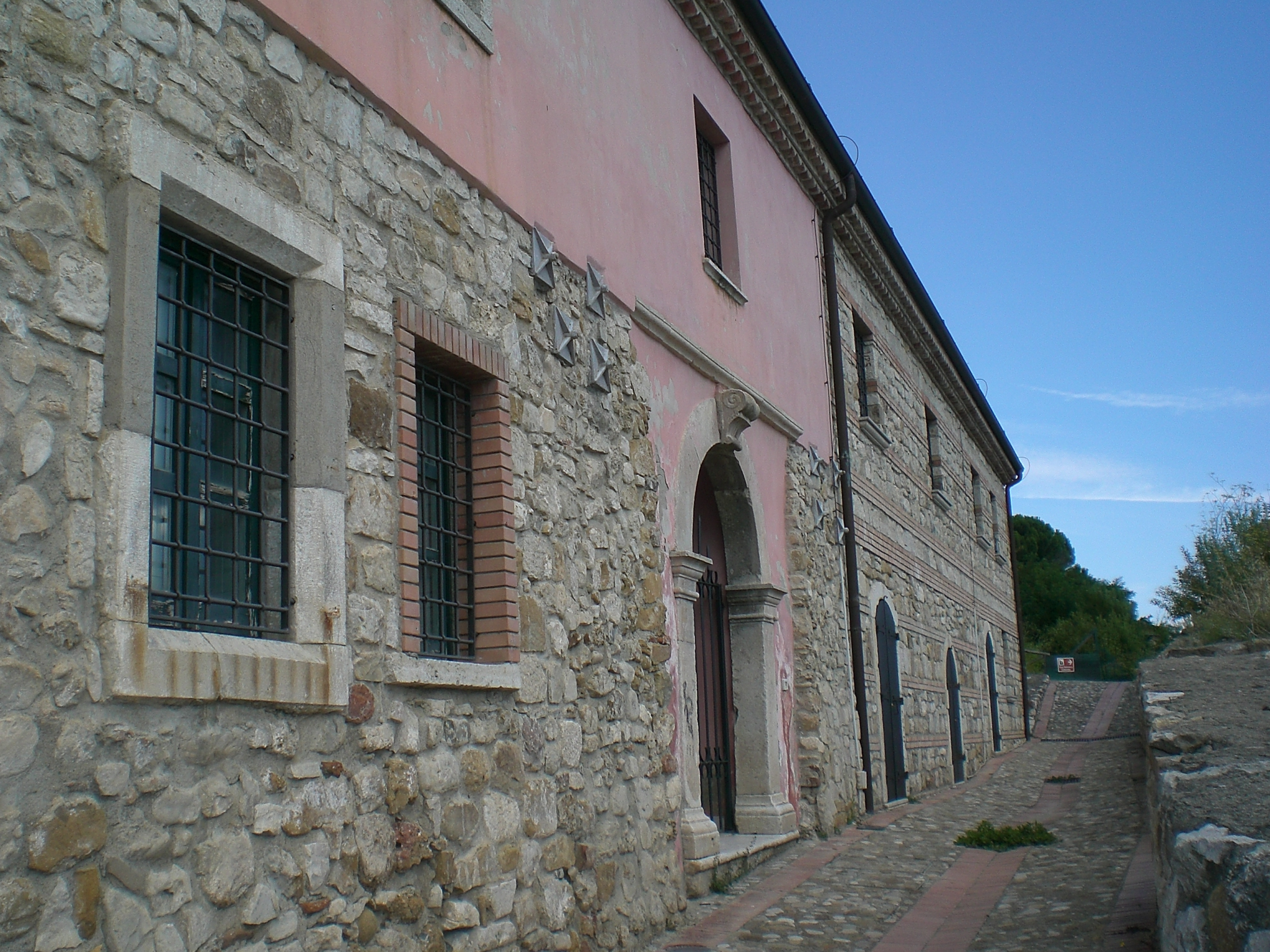 Archaeological museum of Compsa.